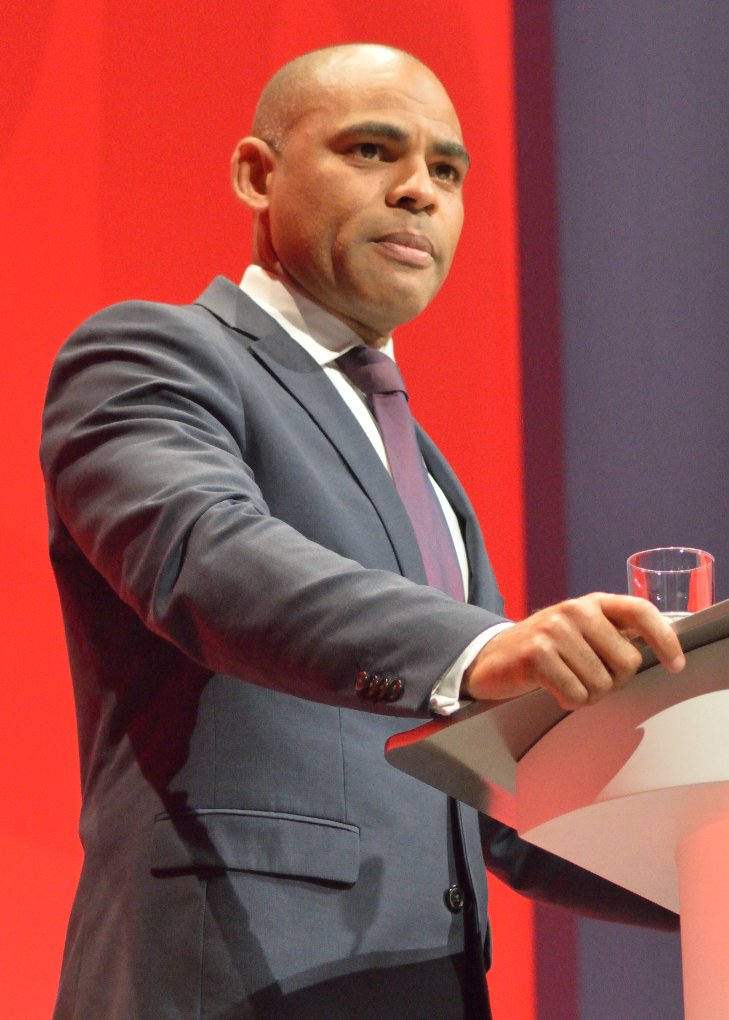 Marvin Rees, Mayor of Bristol, speaking at the 2016 Labour Party Conference in Liverpool.